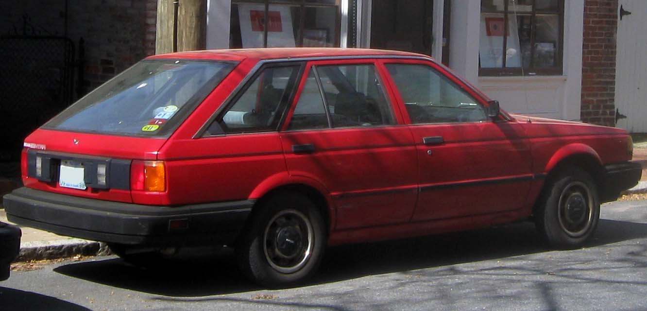 1987-1988 Nissan Sentra photographed in Annapolis, Maryland, USA.